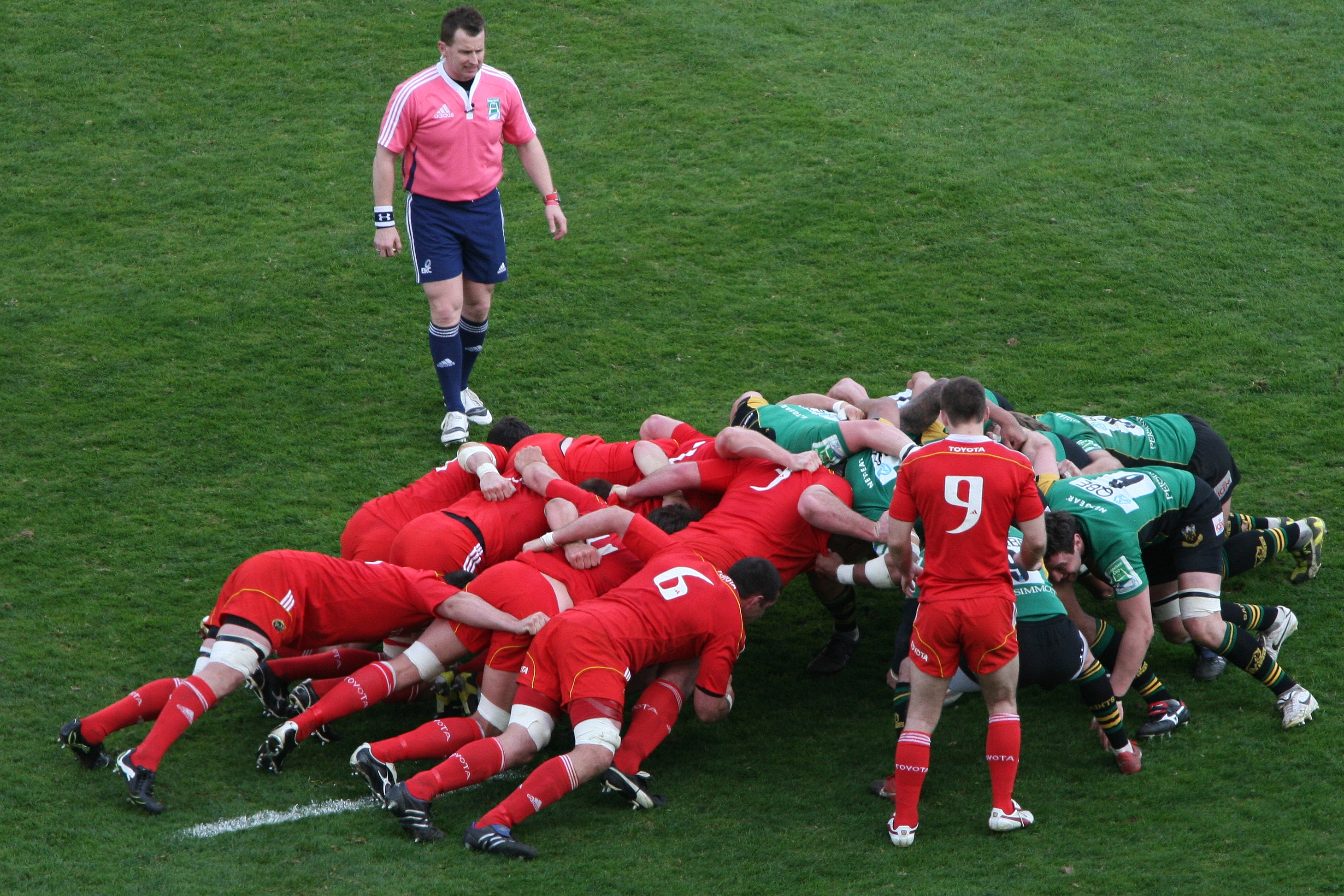 Munster vs Northampton Saints in the Heineken Cup Quarter Final at Thomond Park, Limerick - 10th April 2010 Munster vs Northampton Saints in the Heineken Cup Quarter Final at Thomond Park, Limerick - 10th April 2010